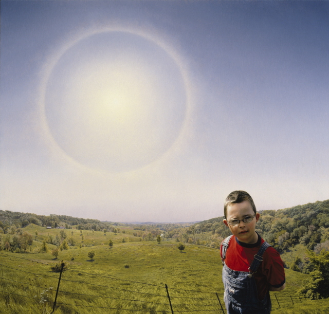 Sam and the Perfect World, 2005, oil on linen, 44 x 46 inches. First place winner of the Outwin Boochever Portrait Competition 2006, Smithsonian National Portrait Gallery. Permanent collection of the Milwaukee Art Museum.